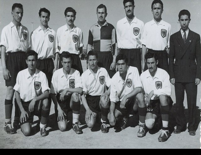 Abbas Ekrami in Shahin F.C.